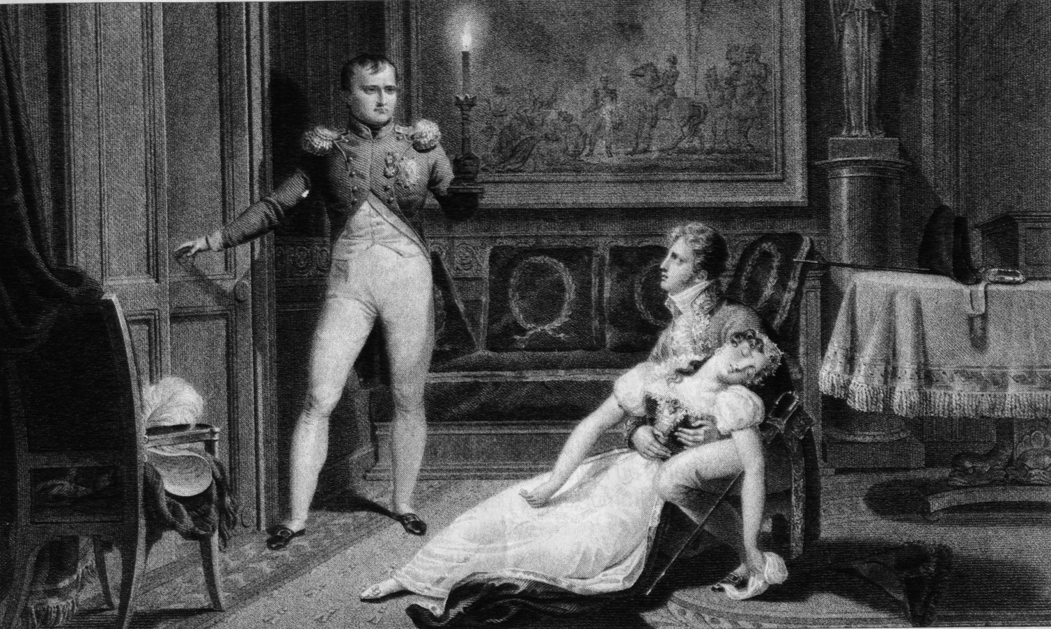 Mid nineteenth-century depiction of Josephine fainting after being told by Napoleon he will decree a divorce (to seek a male heir and royal alliance).